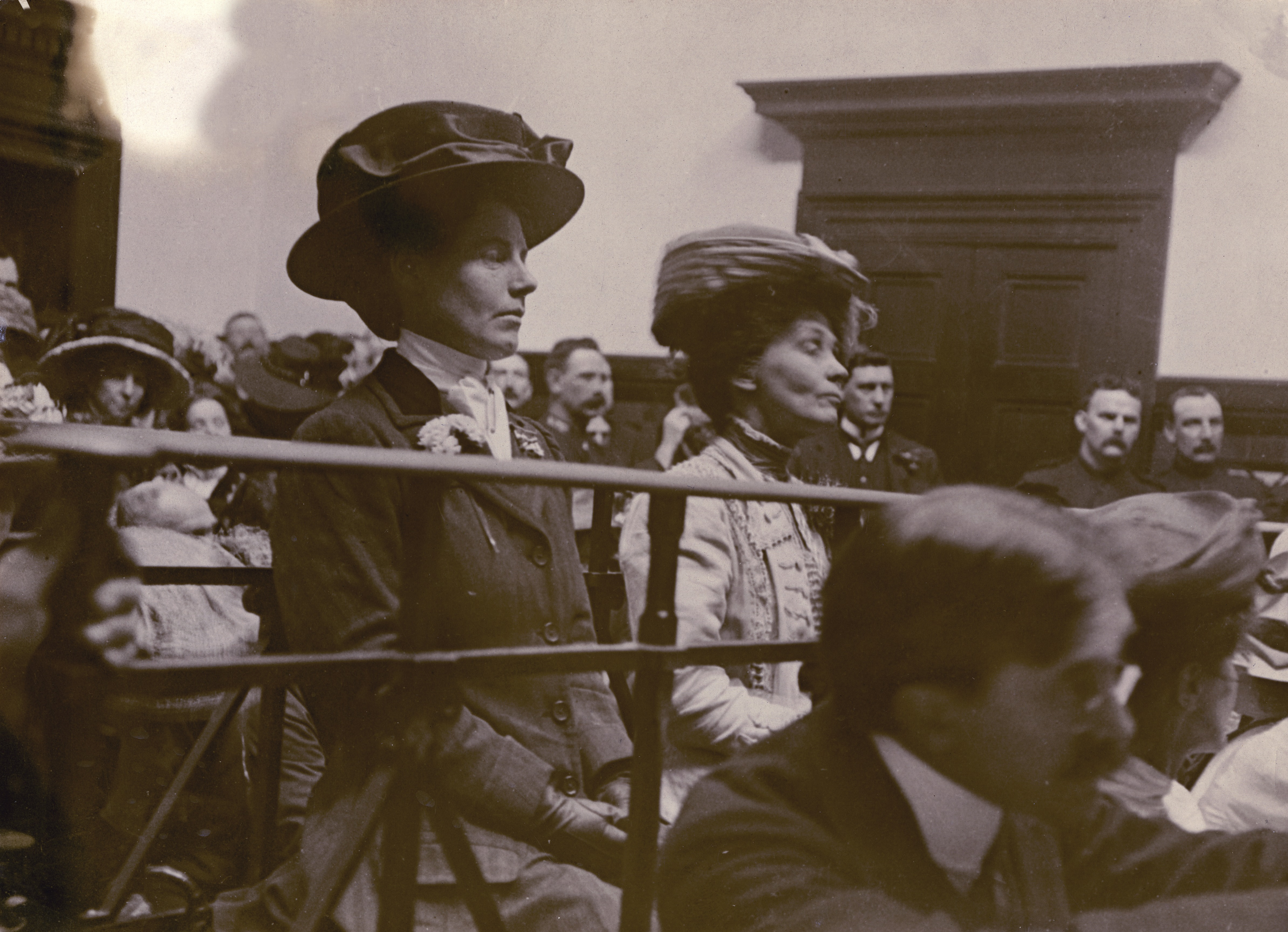 7JCC/O/02/058 Photograph, printed, paper, monochrome, Evelina Haverfield and Emmeline Pankhurst seated in the dock at Bow Street Magistrates' Court; printed inscription on reverse 'Illustrations Bureau, 12 Whitefriars St, EC'